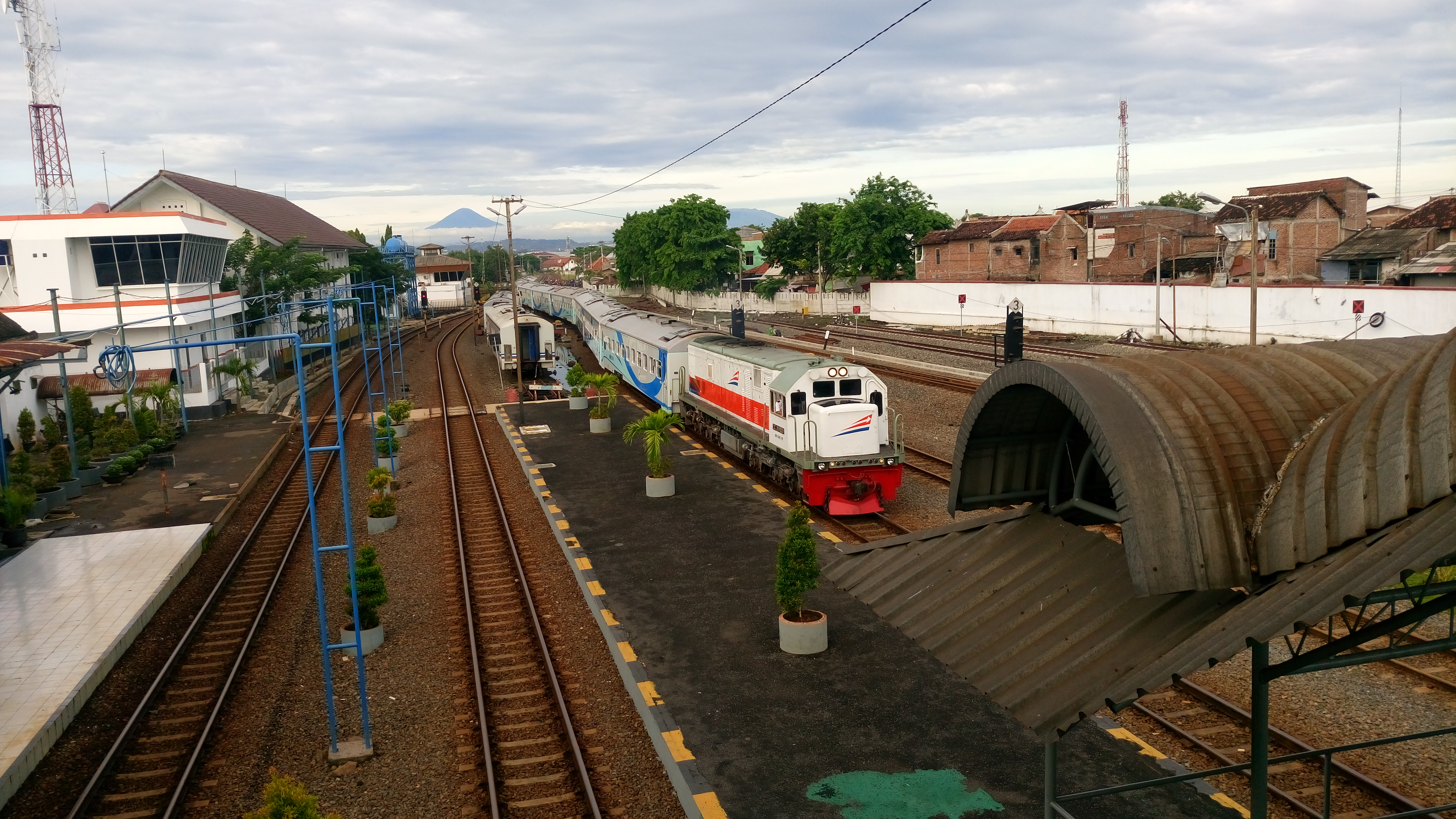 Line of Ambarawa Express train lets in to Semarang Tawang Station